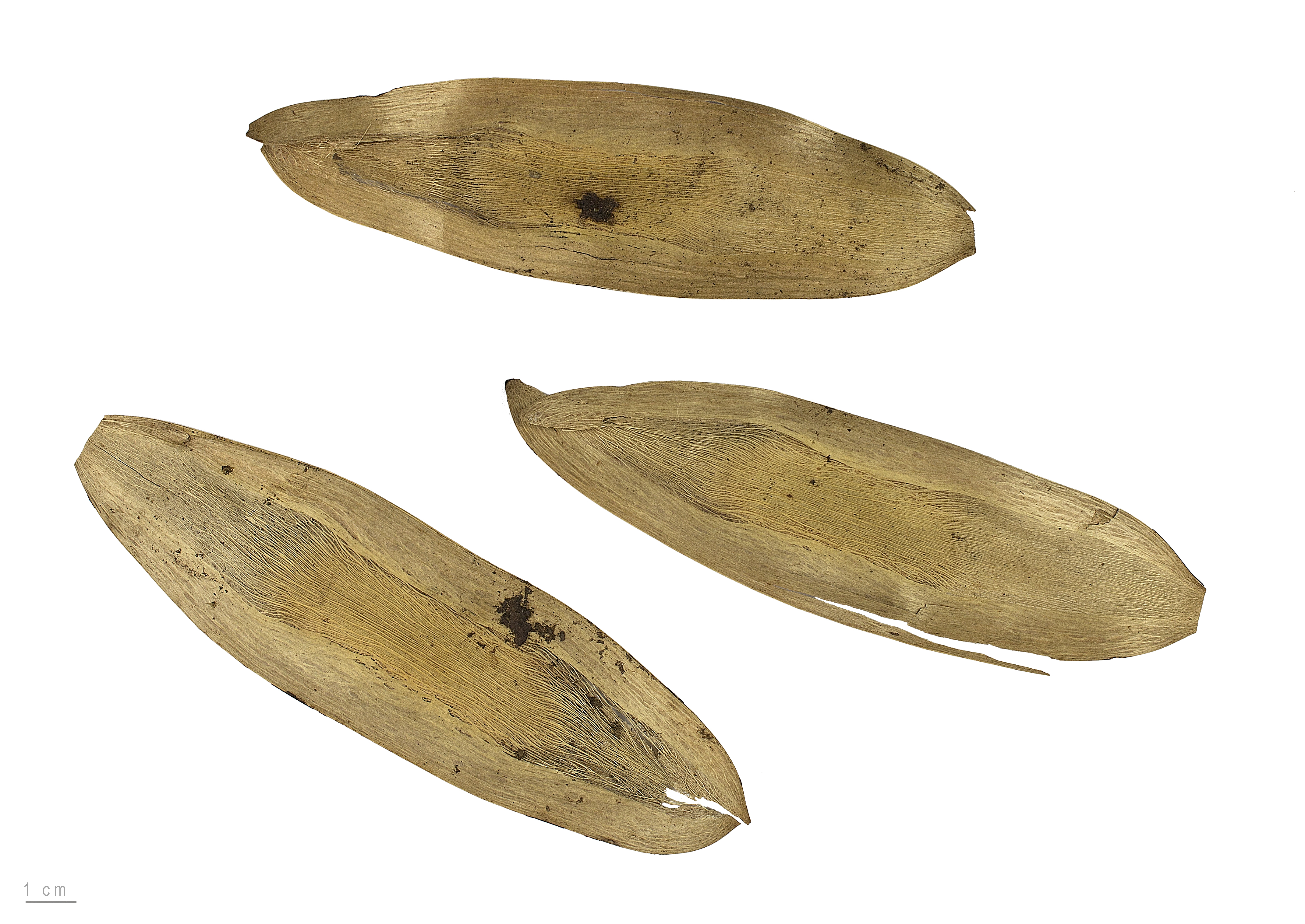 Tachigali melinonii, seeds